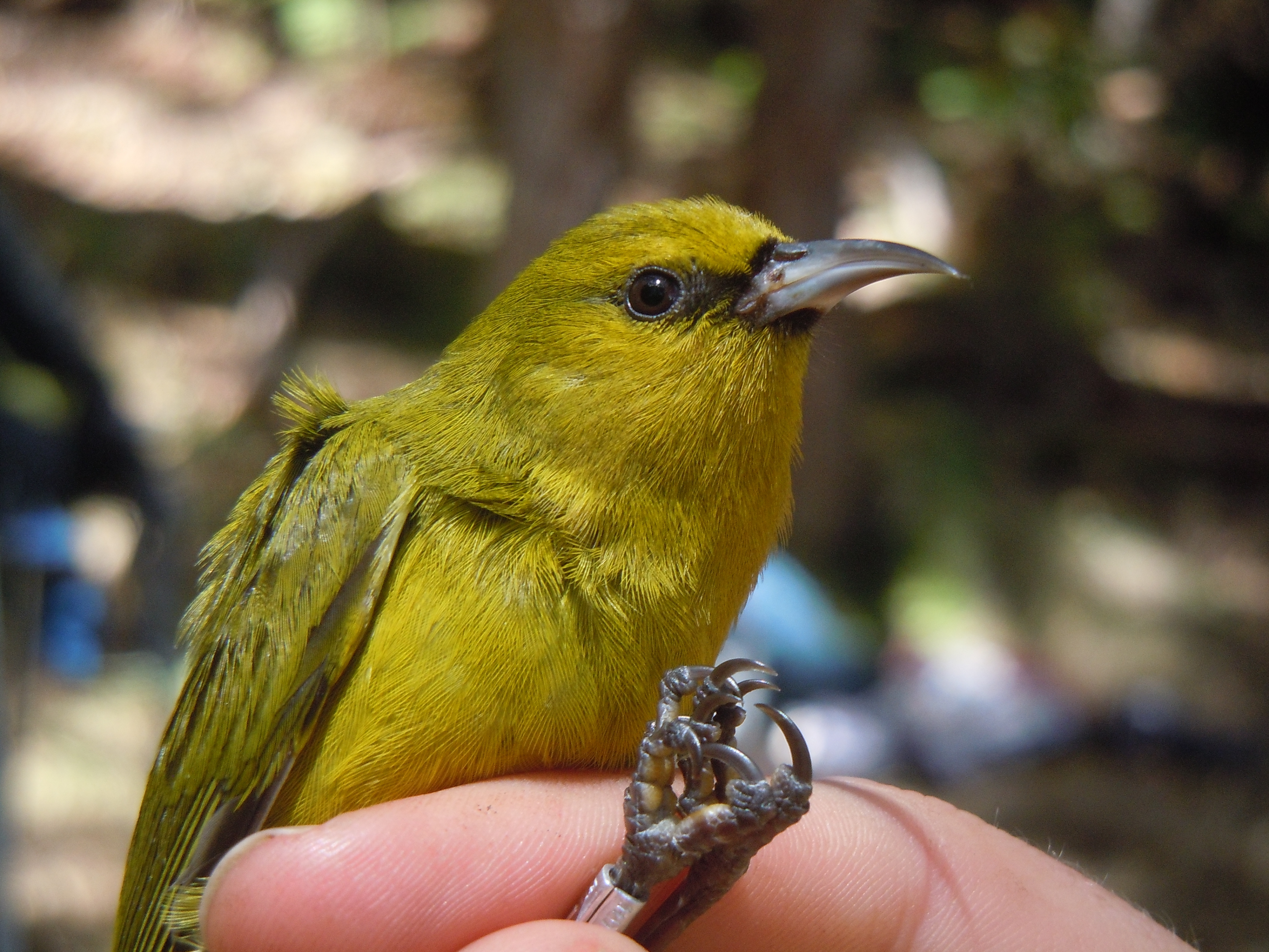 Hawai'i 'amakihi (Hemignathus virens). The endangered 'amakihi evolved in the forests of Hawai'i and is found nowhere else in the world. This bird was banded and released back to the forest. Hakalau Forest National Wildlife Refuge, HI March 2012 Photo: Noah Kahn/USFWS